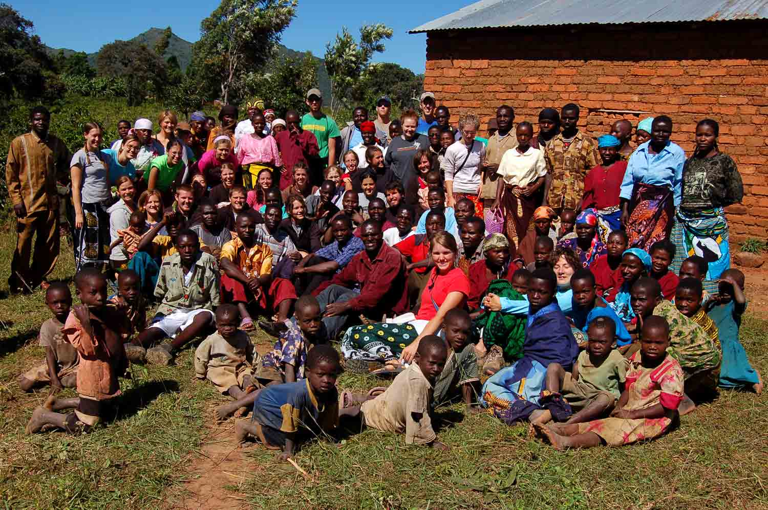 Mwagona! Students and host families from the village of Itete, near Mbeya, Tanzania.